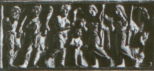 catedra8: Maximian chair: detail